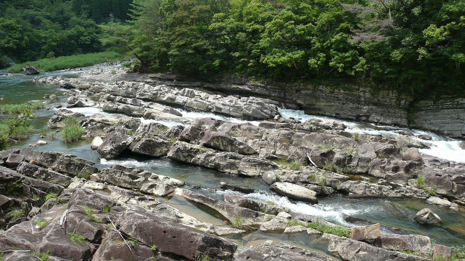 Funakata-Todoro - Isuzu River (Kitago-ku, Misato Town, Miyazaki, Japan)